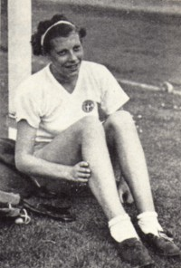 Gabre Gabric in a shot in Italy in 1930s